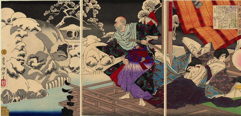 From the series, 'A New Selection of Strange Events'. Taira no Kiyomori sees the skulls of his victims. (新容六怪撰 平相国清盛入道浄海)